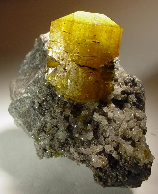 Sturmanite, Ettringite Locality: N'Chwaning Mines, Kuruman, Kalahari manganese fields, Northern Cape Province, South Africa (Locality at ) A brilliantly yellow, lemon-colored, nearly-2-cm crystal is perched atop a knoll of matrix. The large crystal is sturmanite, and the smaller yellow specks in the matrix are probably ettringite - though often the same crystal may host both species in a transitional mix and its hard to say for sure without proper analysis. Surpassingly aesthetic! These came from a small series of finds, now some 20 years ago, and have not been found in this quality since. 4.9 x 4 x 3.6 cm